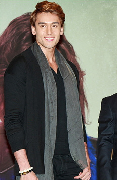 Julien Kang in February 2012